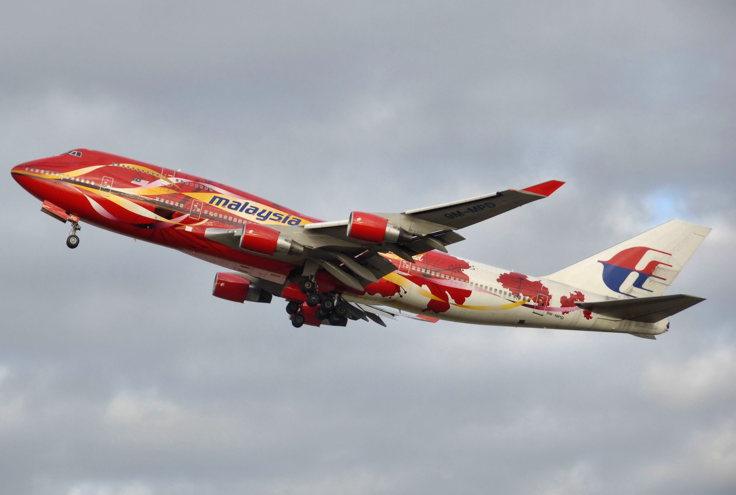 Malaysia Airlines Boeing 747-400 (9M-MPD) taking off from London Heathrow Airport, England.